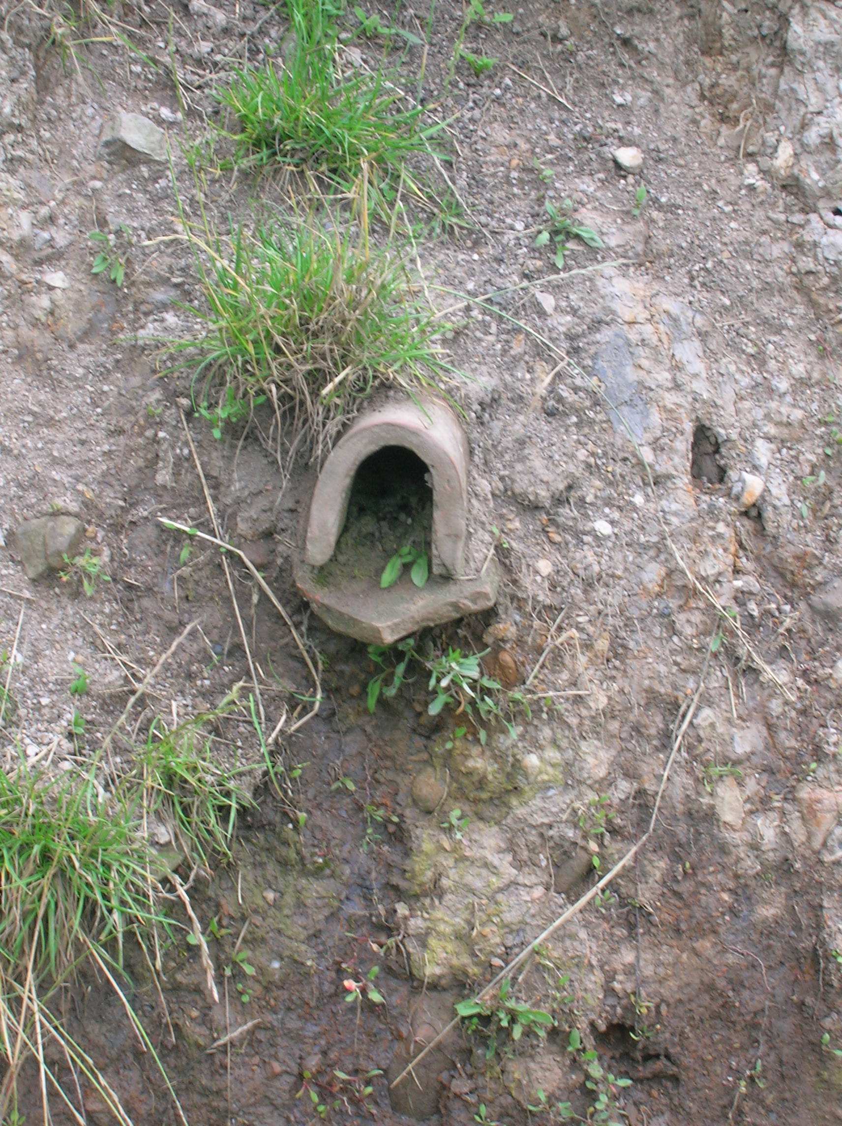 Mug and sole field drain. South Auchenmade. North Ayrshire. Scotland.